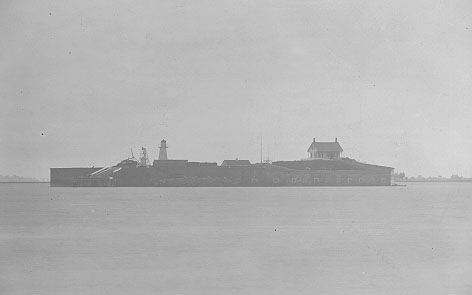 Fort Sumter Lighthouse (Charleston County, South Carolina) This image or file is a work of a United States Coast Guard service personnel or employee, taken or made as part of that person's official duties. As a work of the U.S. federal government, the image or file is in the public domain (17 U.S.C. § 101 and § 105, USCG main privacy policy and specific privacy policy for its imagery server).